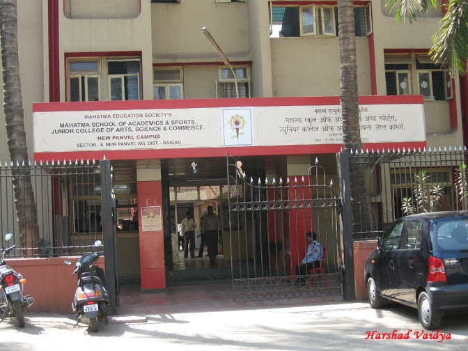 Mahatma School New Panvel Old Building Entrance